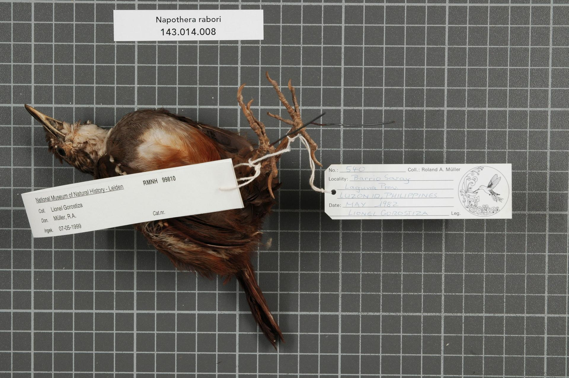 Napothera rabori Rand, 1960